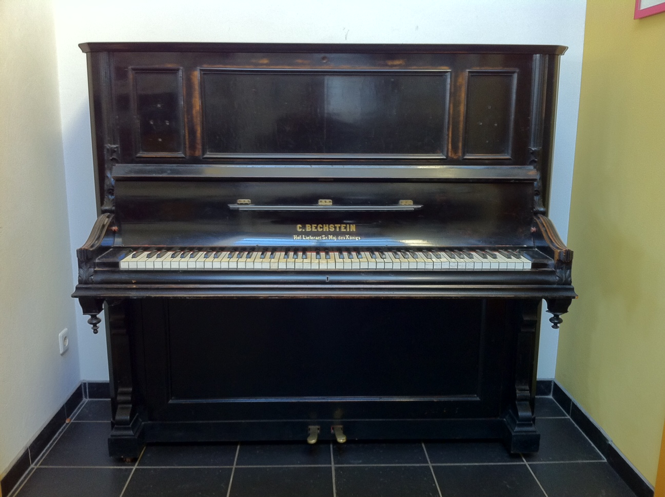 Bechstein piano, 1870, serial no. 4301